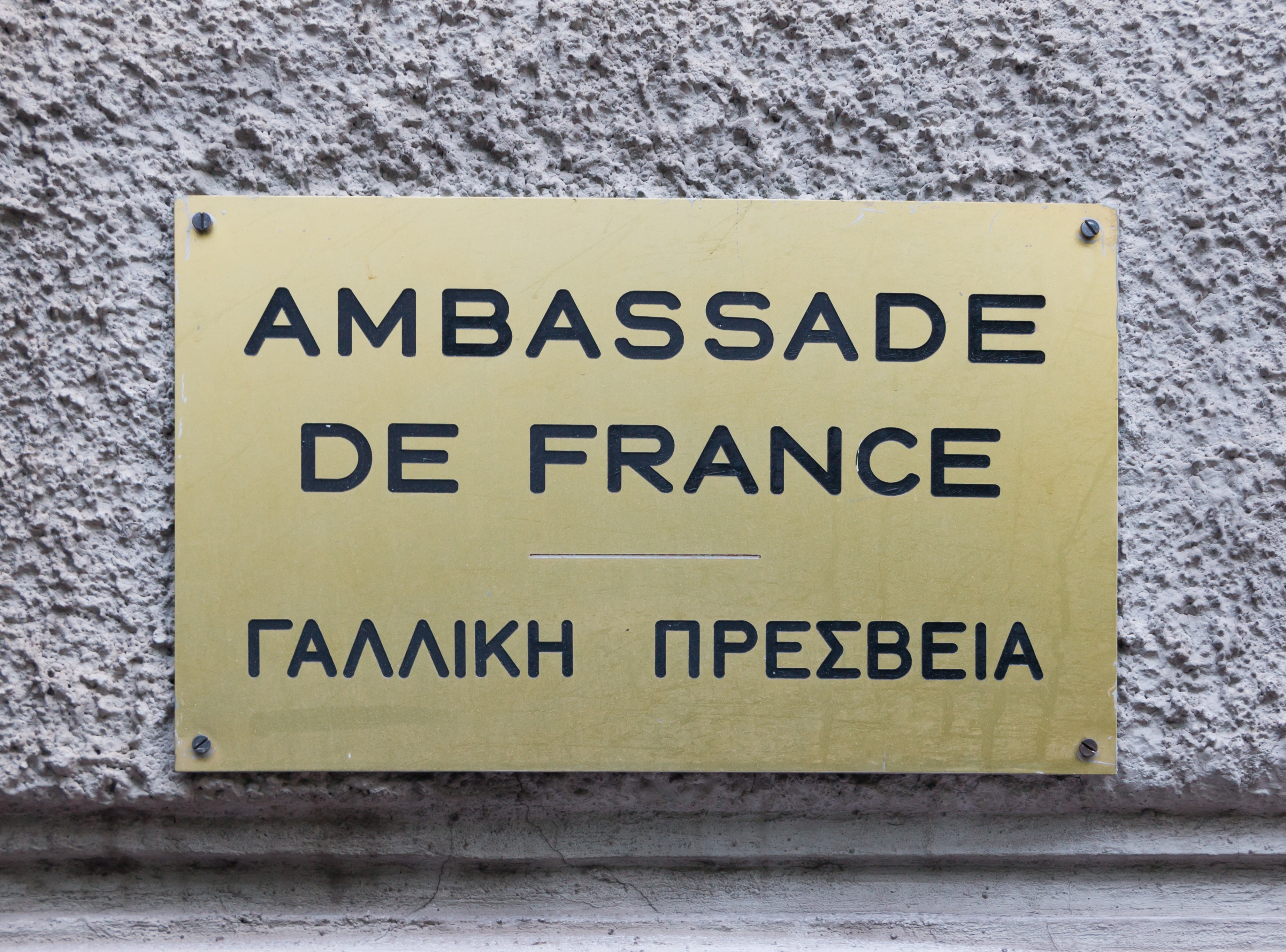 Plaque at the Embassy of France to Greece, Athens, Greece.